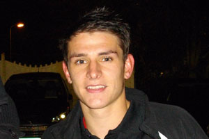 Photo taken by myself of Ashley Westwood following the Tamworth Vs. Crewe Alexandra game on November 6 2010 at The Lamb Ground.